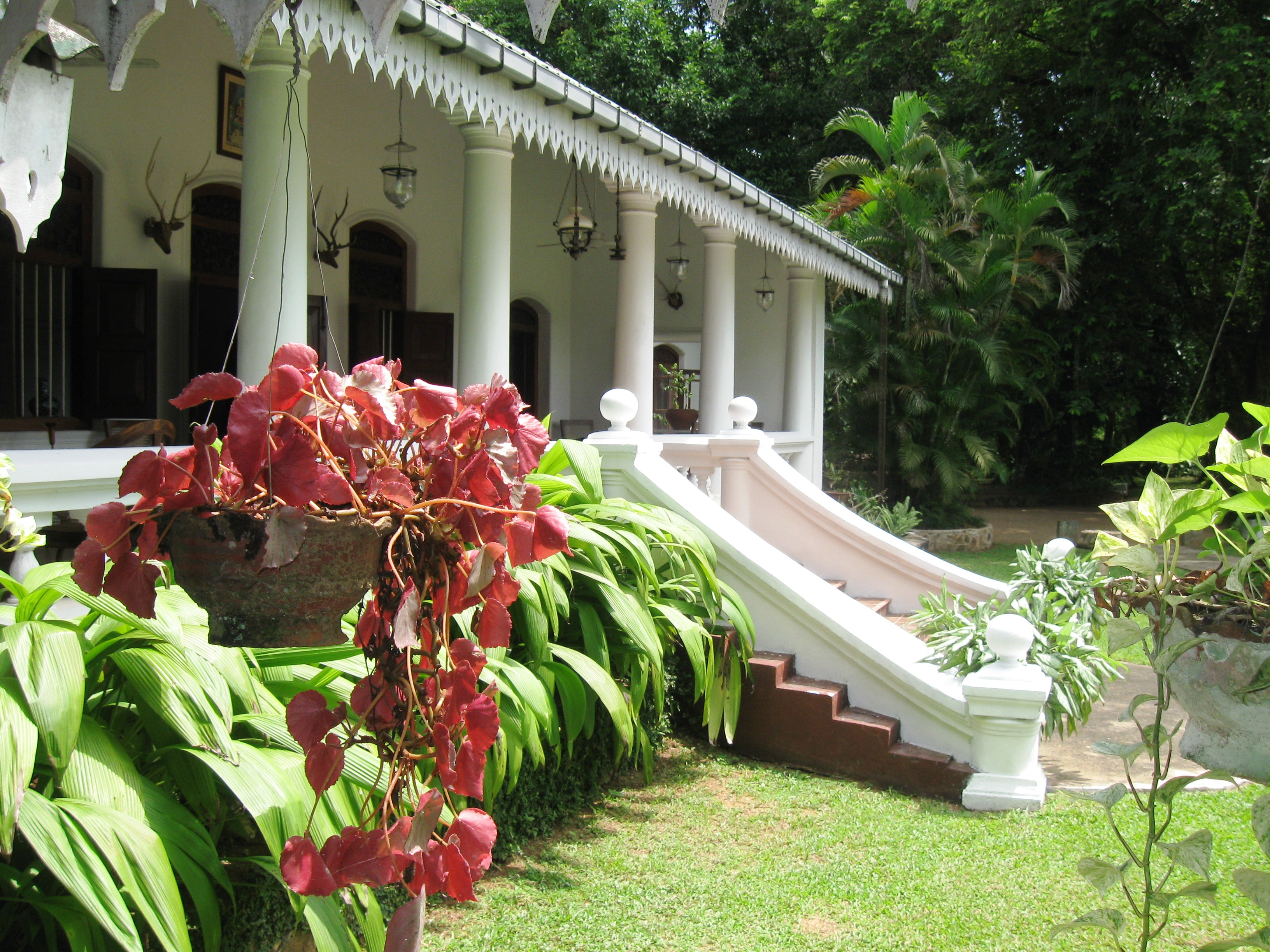 Photograph of Meeduma Walauwa, Rambukkana, Sri Lanka.